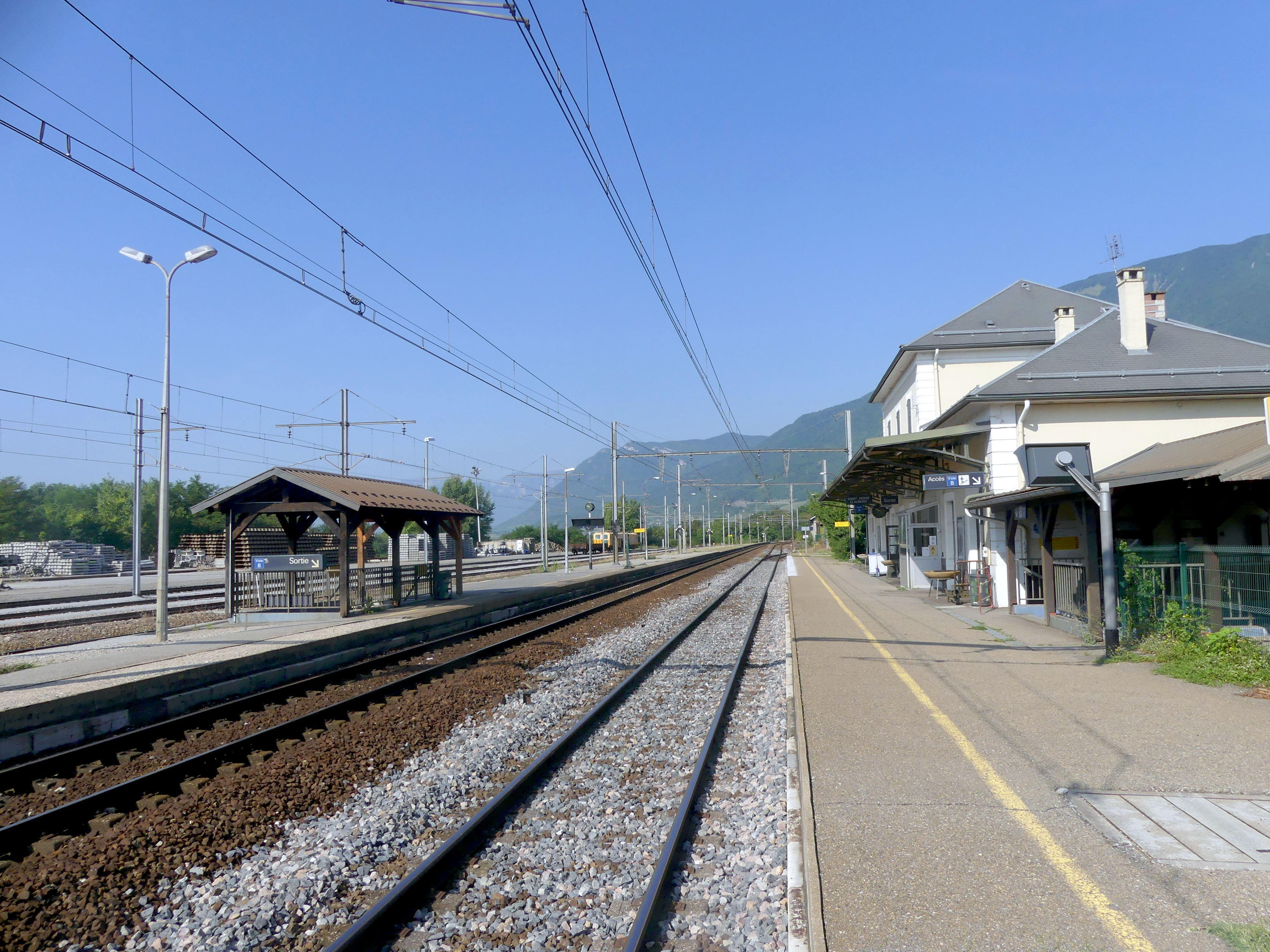 Sight of Saint-Pierre-d'Albigny railway station, in the direction of Chambéry, in Savoie, France.